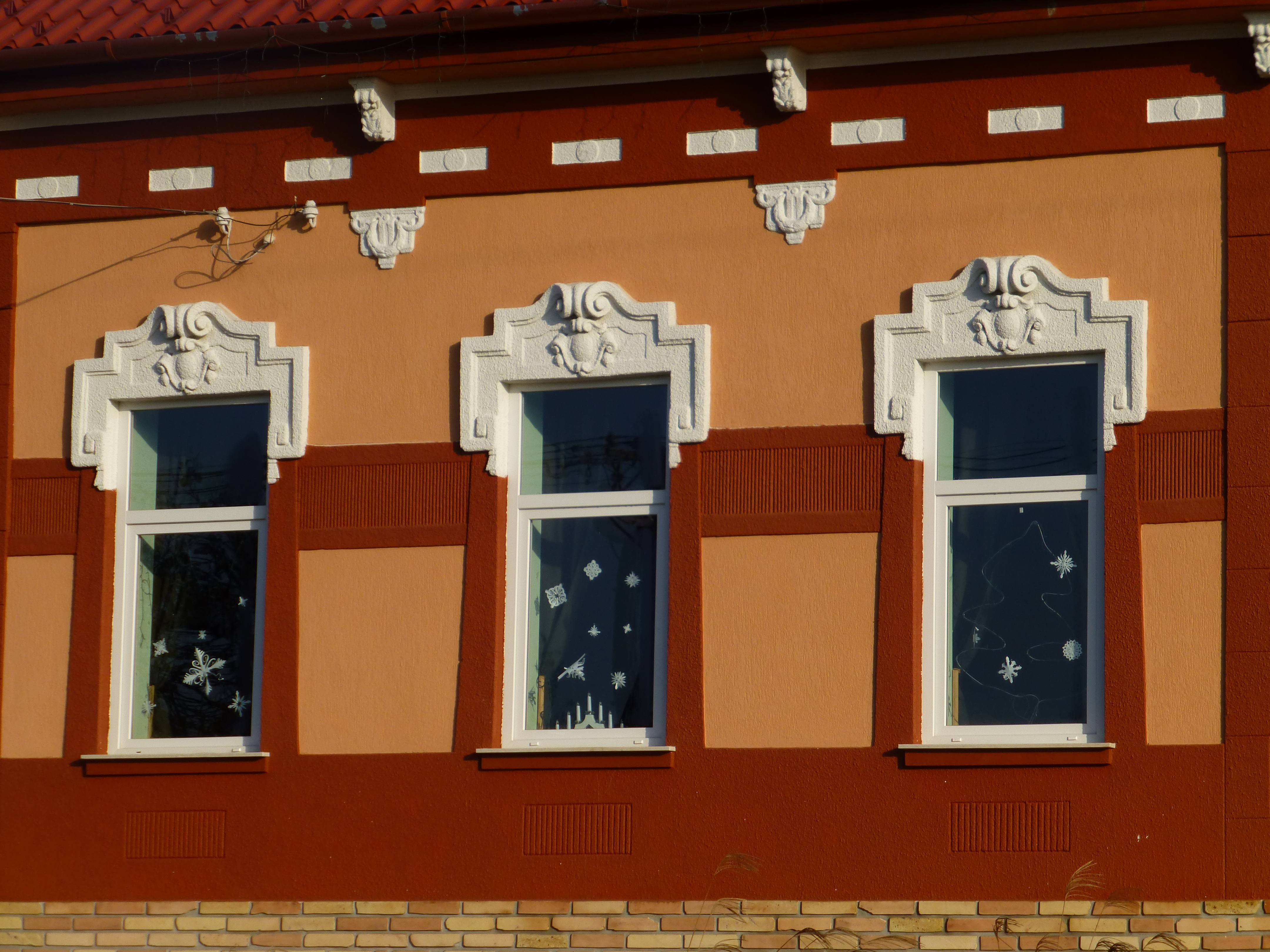 Örkény, Nagykőrösi út 3. Detail. Traditional home of an rich village citizen from the first years of the 1900s. The building served as the doctors's office up to mid of 1990s. Nagykőrösi út 31. (For more picture see the category)